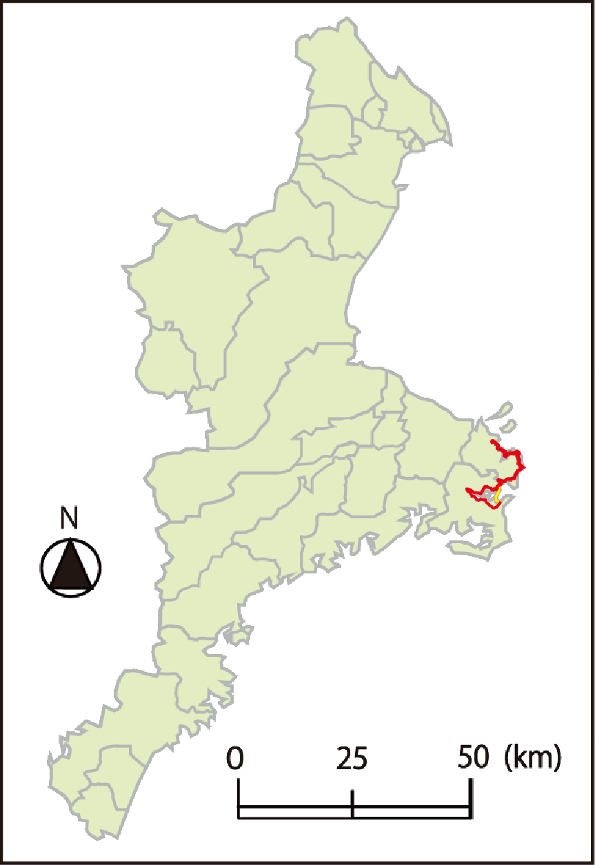 Map of the Mie Prefectural Road Route 750 (Ago Isobe Toba Line)